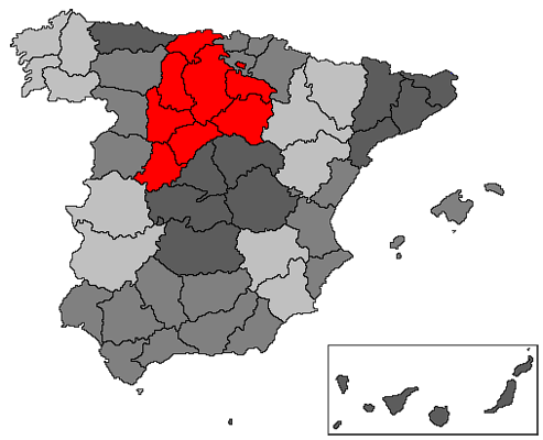 Spanish historic region of Old Castile.